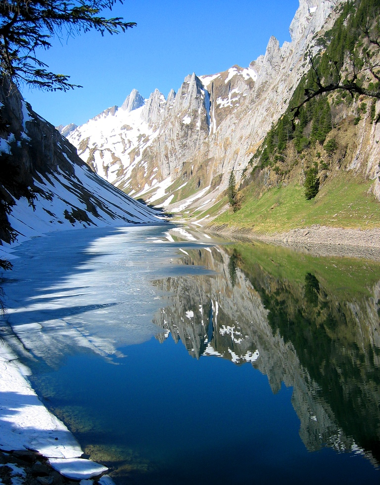 Fälensee or Fählensee, Alpstein, Switzerland